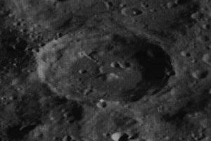 Oblique view of Carver crater, on the far side of the moon, facing roughly south.